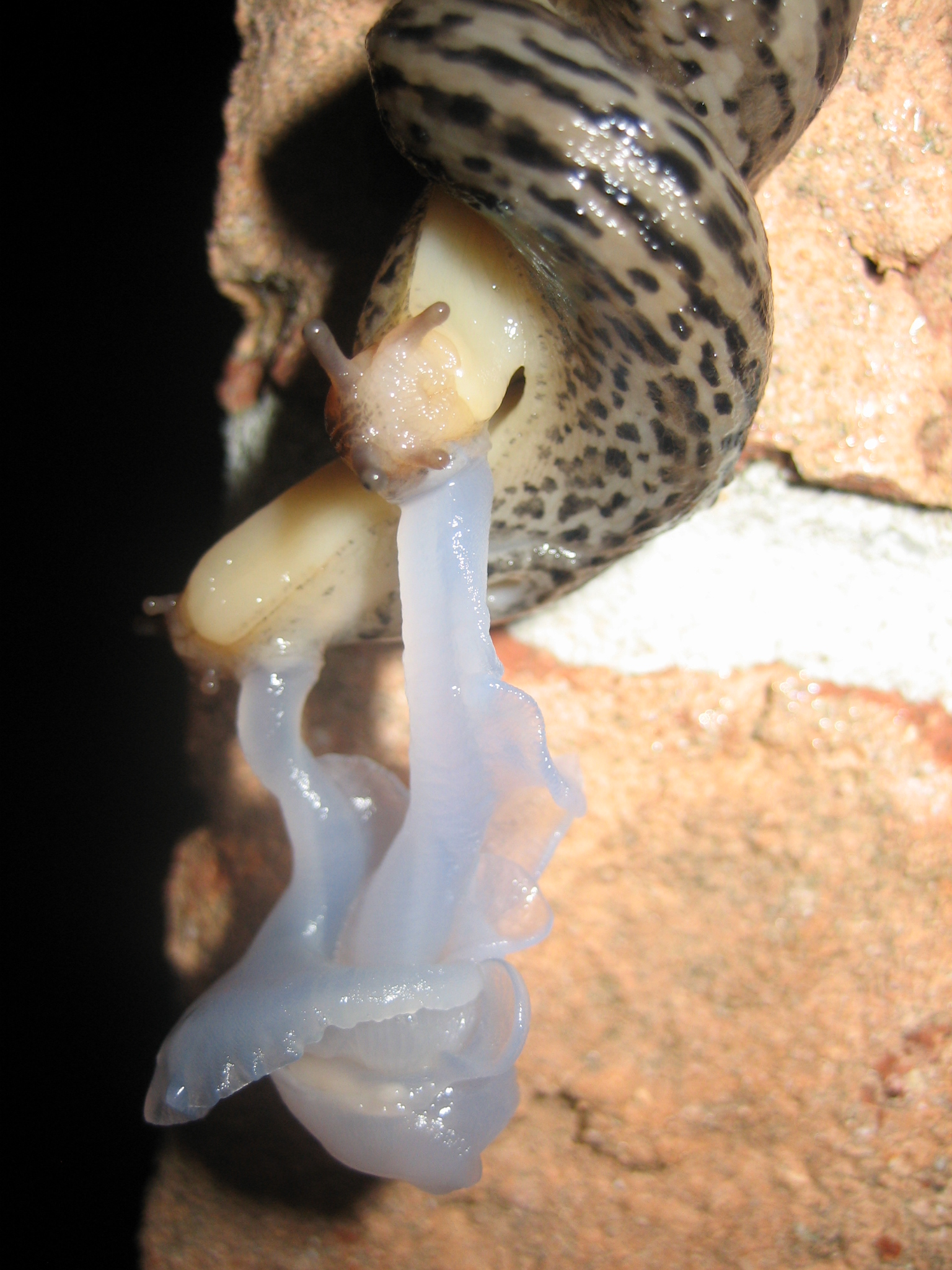 slug mating